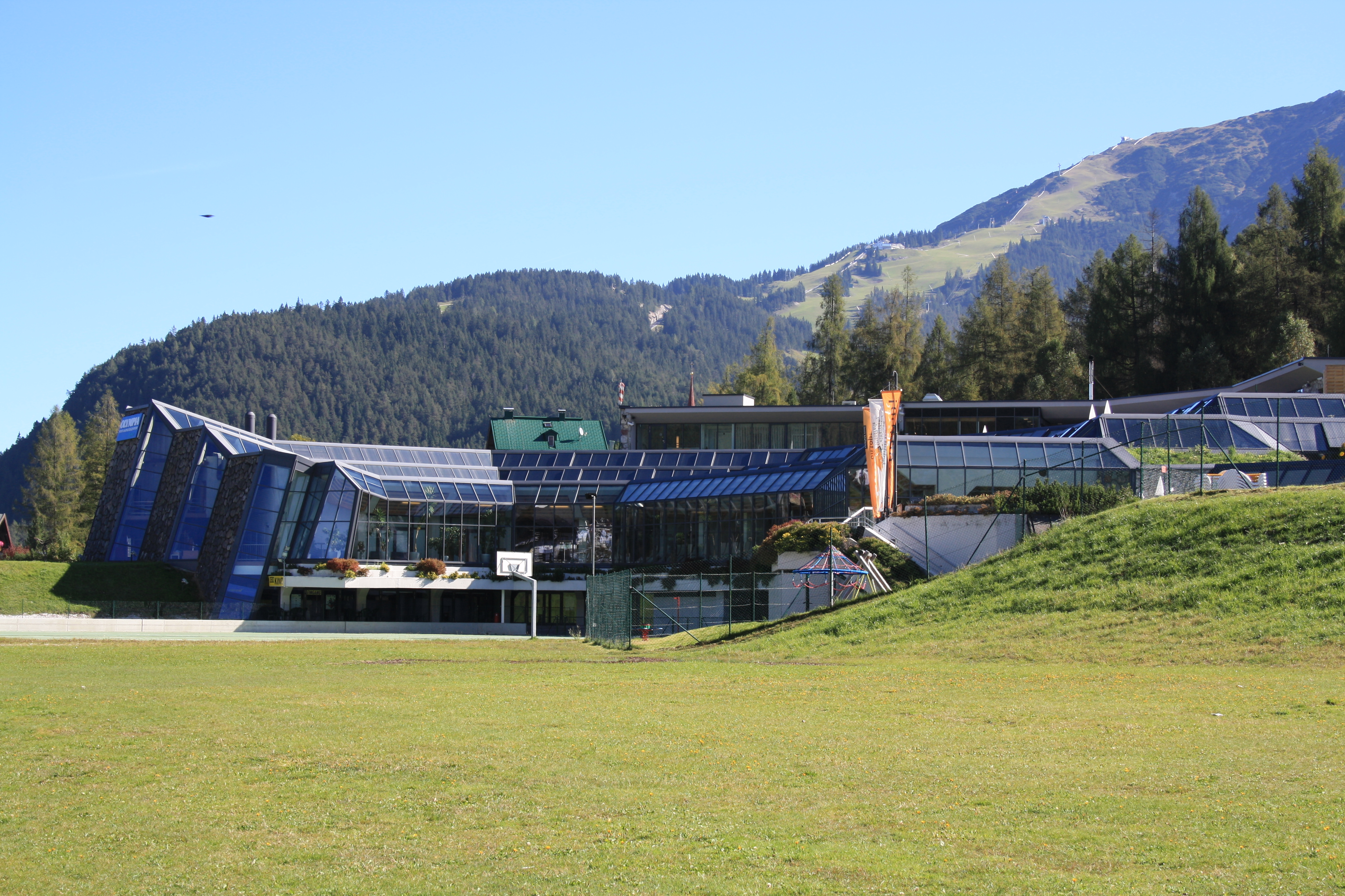 Seefeld in Tirol, the Olympia sport and Congress Centre. This media shows the remarkable cultural object in the Austrian state of Tyrol listed by the Tyrolean Art Cadastre with the ID 53994.